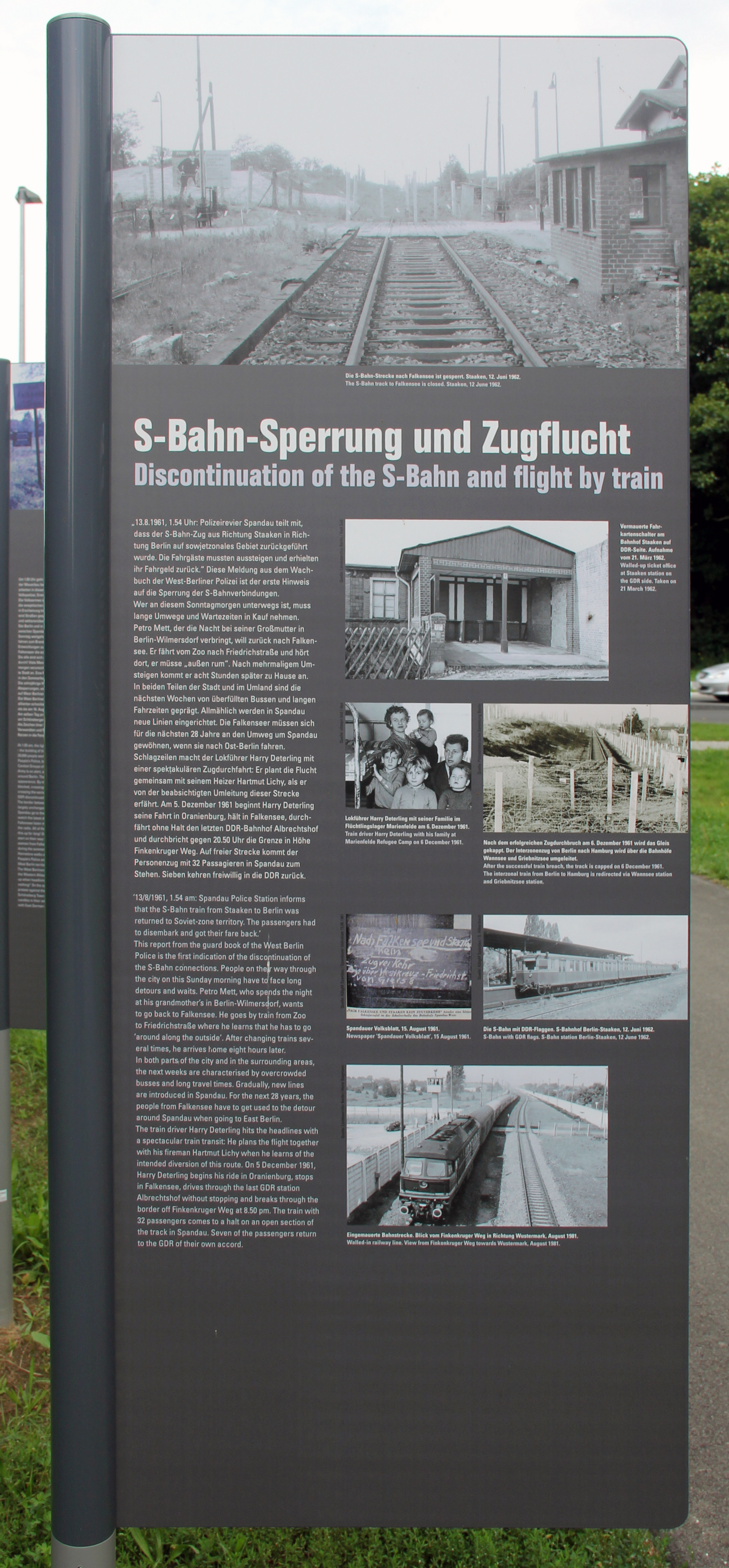 Memorial plaque, Deutsche Teilung, Bürgermeistergarten, Falkensee, Deutschland